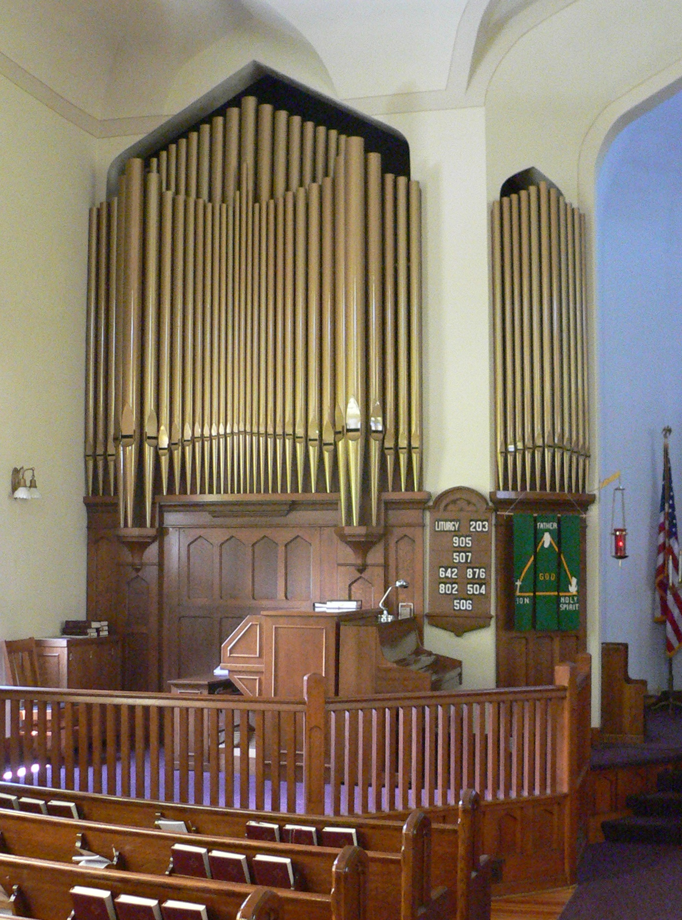 Interior of Our Redeemer Lutheran Church, located at 3743 Marysville Road near Staplehurst in rural Seward County, Nebraska: organ at southwest corner.